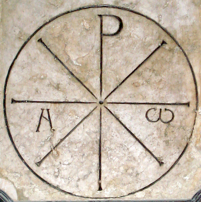 The Chrismon Sancti Ambrosii, Milan Cathedral. Marble slab with Chi-Rho monogram and Alpha and Omega in a circle; traditionally associated with St. Ambrose (4th century), and possibly indeed of this period. A frame with inscriptions was added in the baroque period (supposedly in 1669, when it was moved to a "baroque corner" of the refurbished dome after it had been kept in storage since 1577). The inscription above reads Chrismon Sancti Ambrosii (i.e. "oracle of St. Ambrose", whence the name chrismon for the Chi-Rho monogram), the one below gives an interpretation of the symbol, Circulus hic Summi continet nomina Regis / Quem sine principio et sine fine vides / Principium cum fine tibi denotat Α Ω "The circle here contains the name of the Highest King, whom you see without beginning or end; Alpha and Omega signify the beginning and end for you" Literature: "1669, 6 settembre: E' sistemato nel coro del Duomo, dov'è ancora oggi, il Chrismon di S. Ambrogio che si trovava nei magazzini della Fabbrica dal 1577. Altri chrismon a Milano si trovavano a S. Ambrogio, S. Giorgio in Palazzo e S. Martino in Compito." (storiadimilano.it) A. L. Millin, Voyage dans le Milanais (1817), p. 51 (trans. C. L. Ring, Mailand und seine Umgebungen, 1825, p. 72). Kenelm Henry Digby, Mores Catholici, Or, Ages of Faith vol. 1 (1844), p. 300.